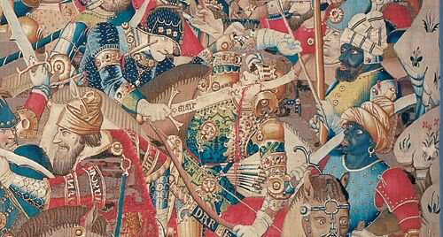 December (detail) The Death of Troilus, Achilles, and Paris From an eleven-piece Story of the Trojan War Design attributed to the Coëtivy Master, ca. 1465 Woven in the southern Netherlands, probably Tournai, ca. 1475–95 Wool and silk; 15 ft. 9 3/8 in. x 30 ft. 10 7/8 in. (481 x 942 cm) Museo Catedralicio, Zamora.